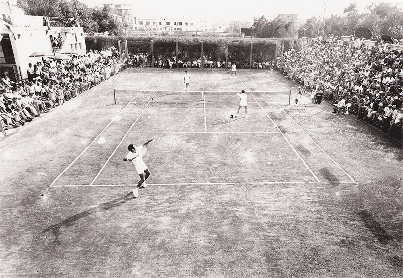 old photograph